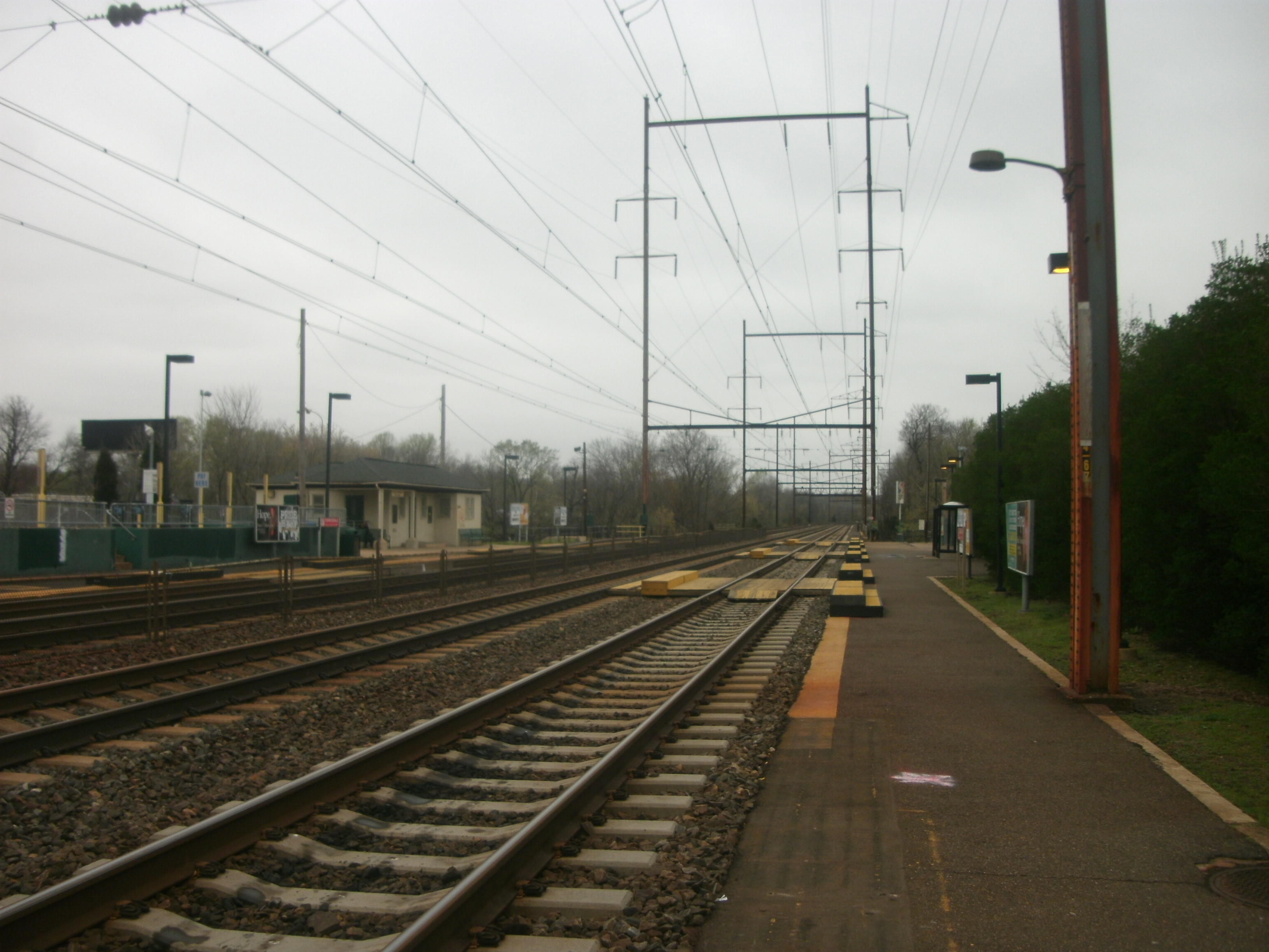 The SEPTA R7 station at Torresdale, Philadelphia, Pennsylvania as seen from the Trenton-bound platform.